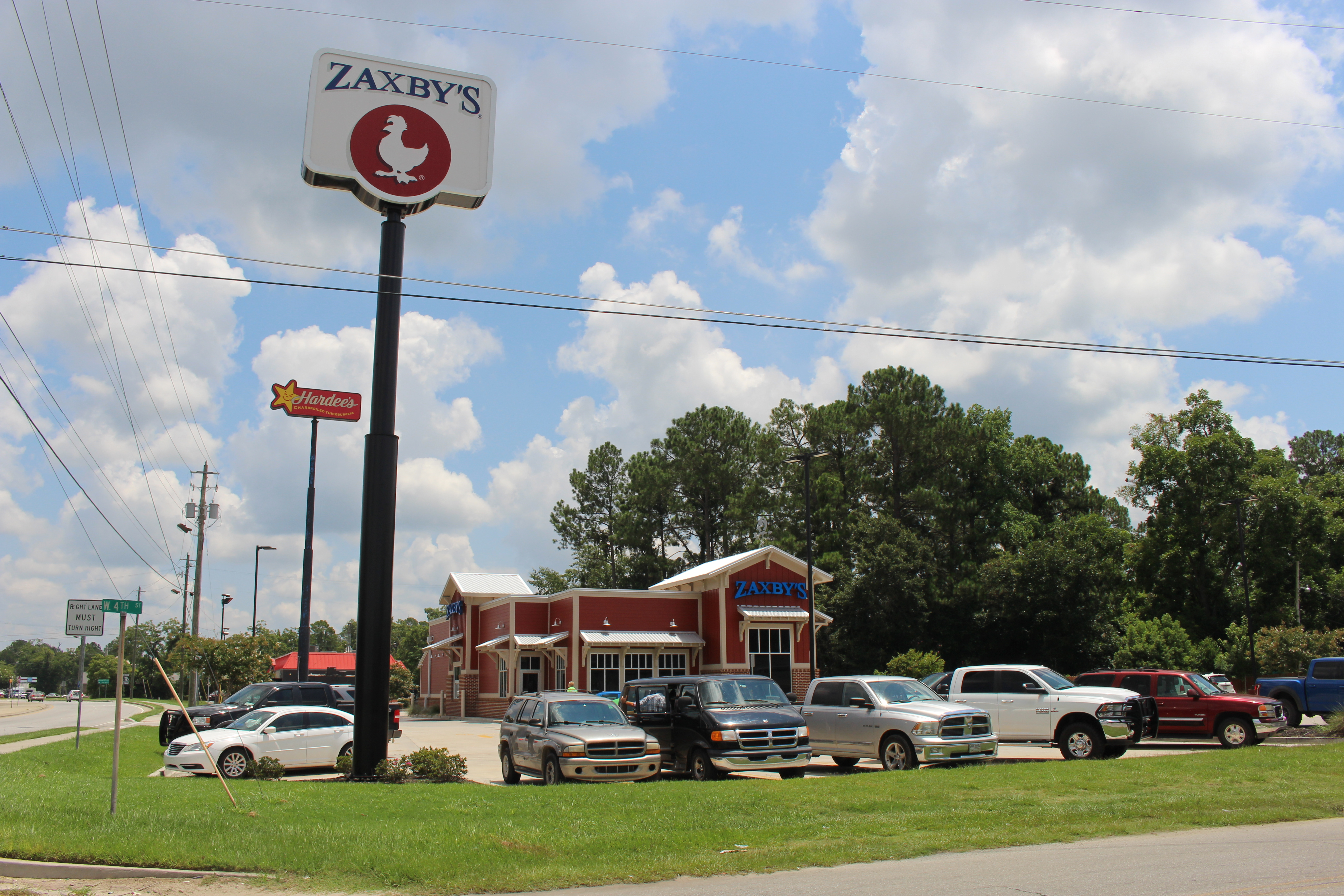 Zaxby's, Adel, Cook County, Georgia